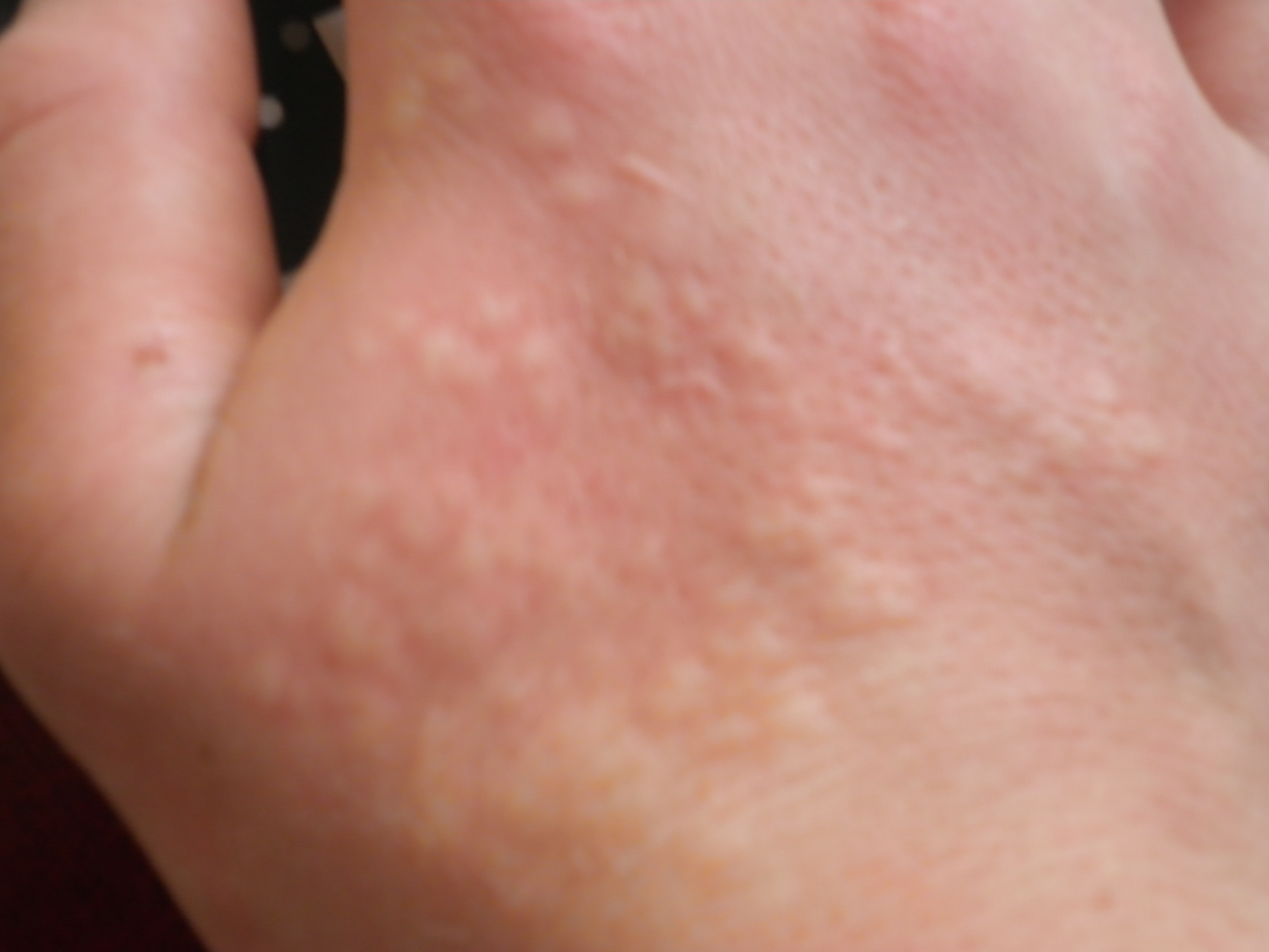 A large nettle sting. Ouch